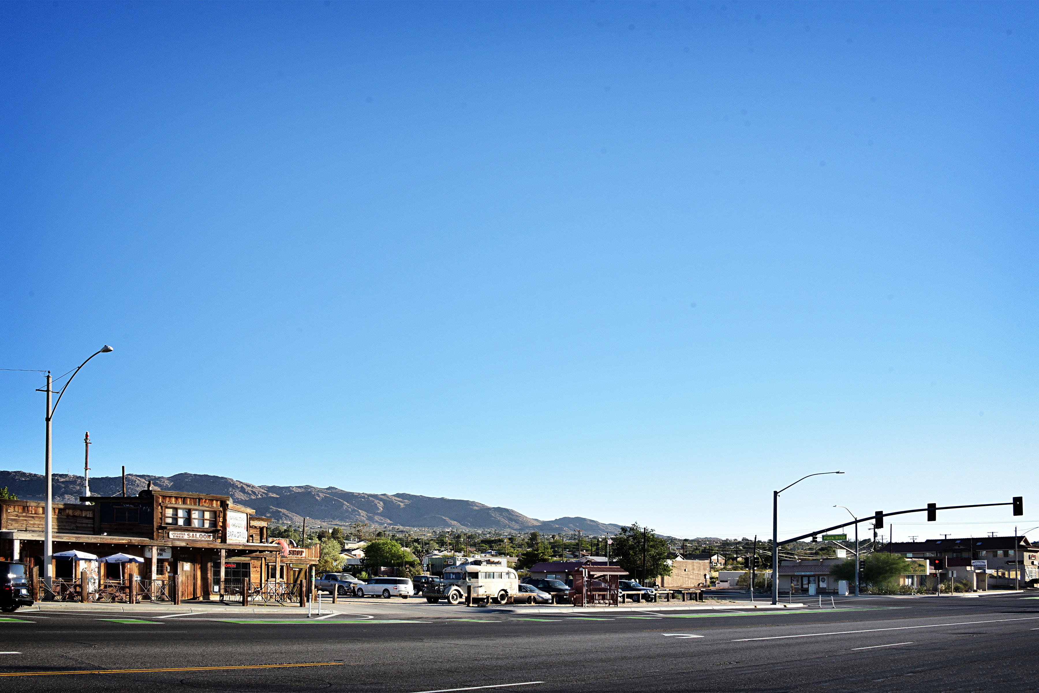 Downtown Joshua Tree at the corner of Highway 62 and Park Ave in June 2017 - Photo by Glenn Francis of